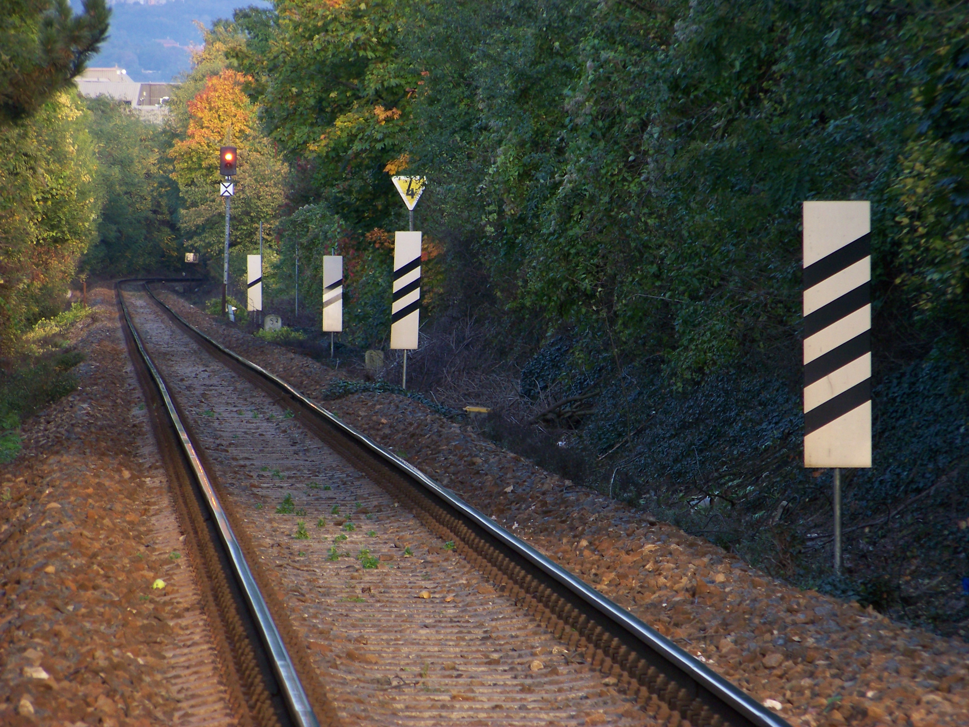 Prague-Dejvice, the Czech Republic. A railway line along Glinkova street. - Google Maps - Google Earth